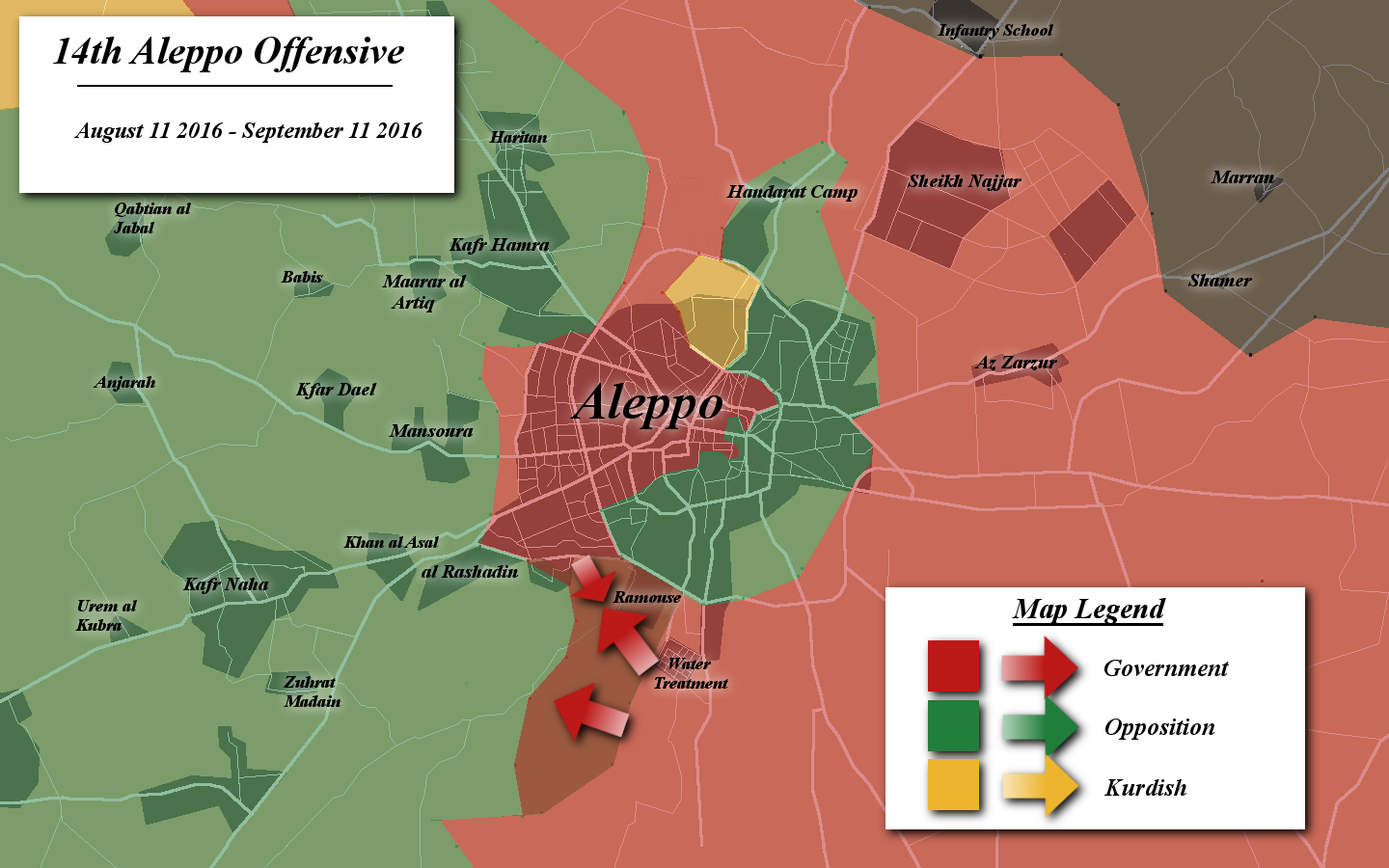 A simplified version of the 14th Aleppo Offensive. Created in gimp 2.8. Influenced by many maps from creators: MrPenguin20, PetoLucem, Edmaps Syria, and so on.